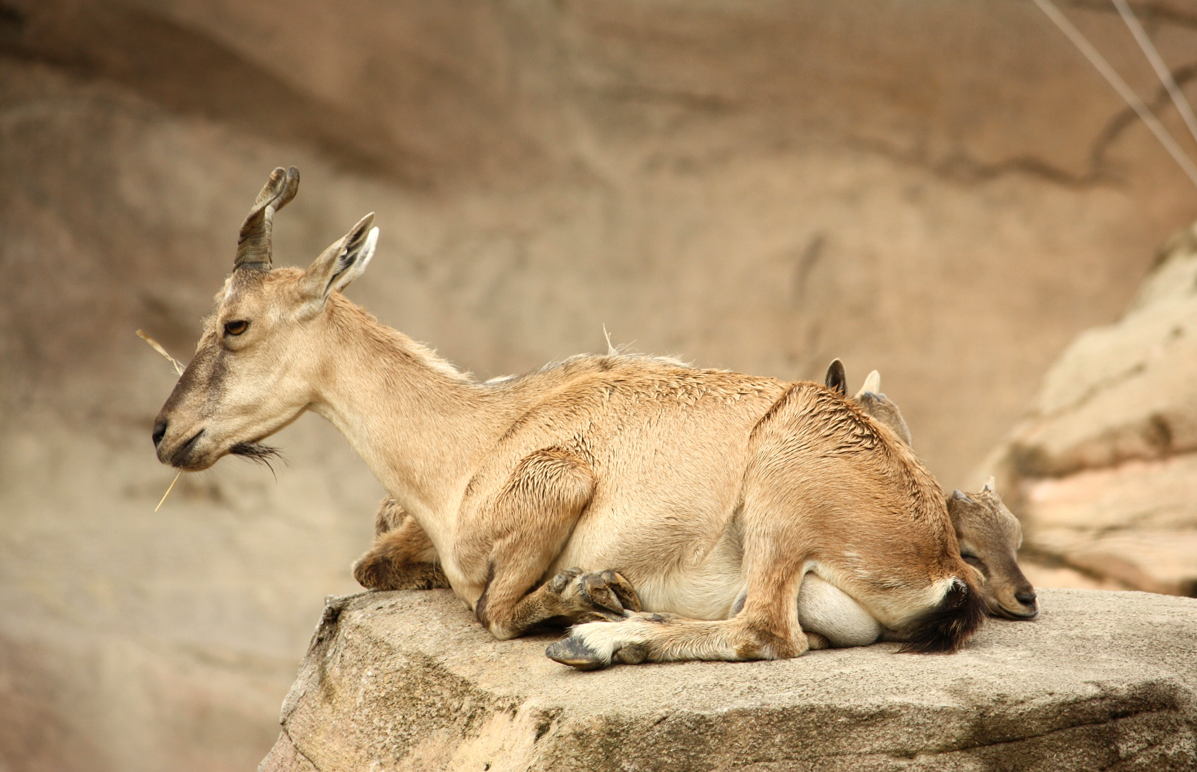 Markhor (Capra falconeri); female with young. Columbus Zoo, Powell, Ohio.